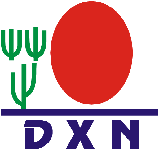 Logo of DXN